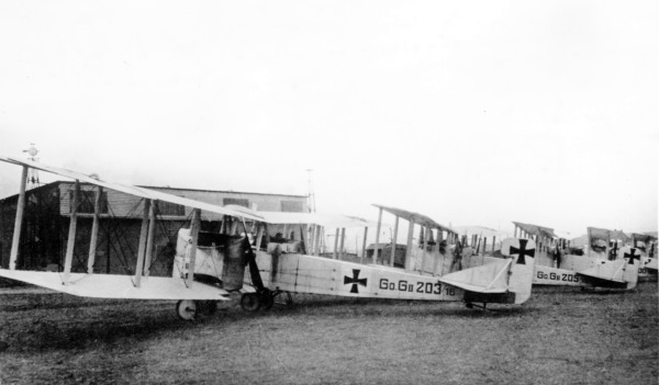 PictionID:43640809 - Catalog:16_004723 - Title:Gotha G II Nowarra photo - Filename:16_004723.TIF - - - - - - - Image from the Ray Wagner Collection. Ray Wagner was Archivist at the San Diego Air and Space Museum for several years and is an author of several books on aviation --- ---Please Tag these images so that the information can be permanently stored with the digital file.---Repository: San Diego Air and Space Museum